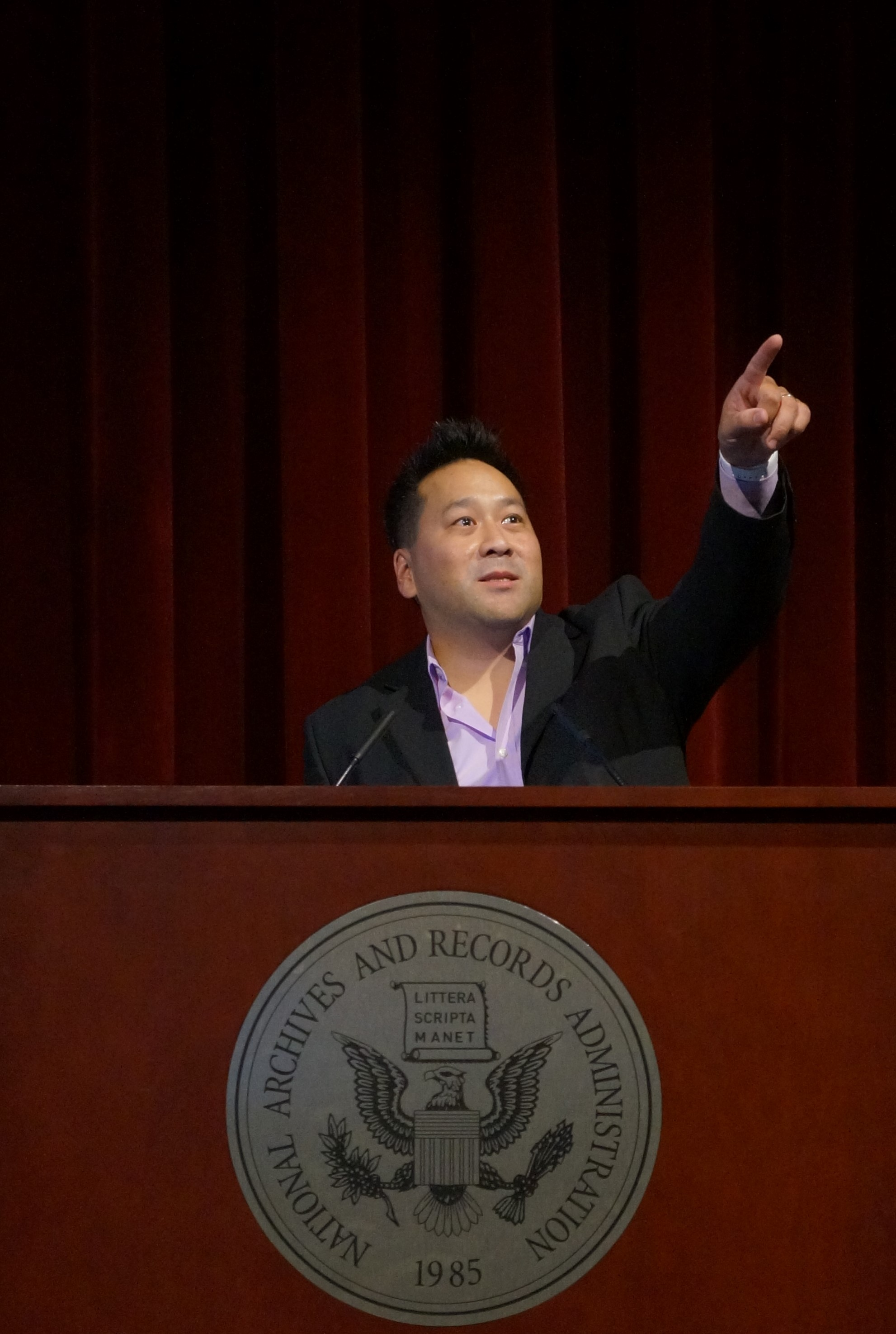 WikiConference USA 2015